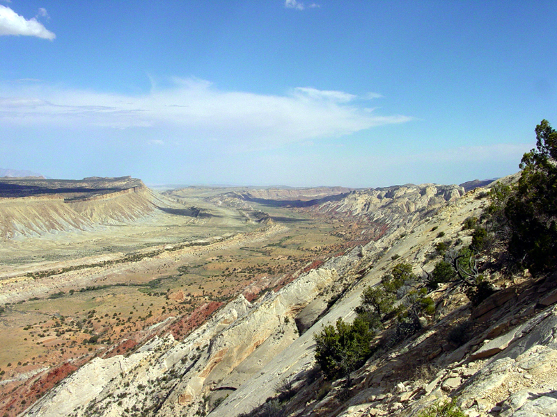 Perhaps the most amazing view in the region is this scene looking south from the Strike Valley Overlook along a great, warping arc in the greater Waterpocket Fold. The scene encompasses about a 2 kilometer thick section of sedimentary rocks and landscape features representing more than 200 million years of earth surface processes and conditions. The oldest sedimentary rocks on the right (the Navajo Sandstone) represents a great blanket of desert dunes that extended across the region at the close of Triassic time. Morrison Formation in the center represents the changes in Jurassic time when the great dune fields gave way to coastal floodplains, swamps, and shallow inland seas. The Mancos Shale represents the formation of a great inland Western Interior Seaway that lasted in the region through almost all of Cretaceous time. Finally this seaway withdrew at the close of Cretaceous time, the land rose, and volcanoes of the Henry Mountains formed in early Tertiary time (probably during the Oligocene Epoch between 37 and 24 million years ago). Since middle Tertiary time, the land has been steadily rising and eroding, perhaps at an increasing rate with the development of the modern Colorado River system across the region.